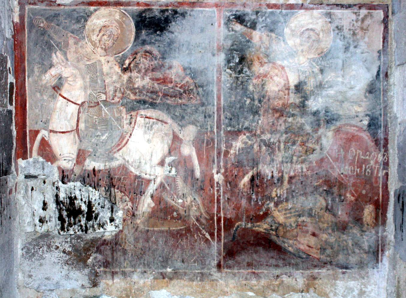 Gudarekhi monastery. Damaged frescos.